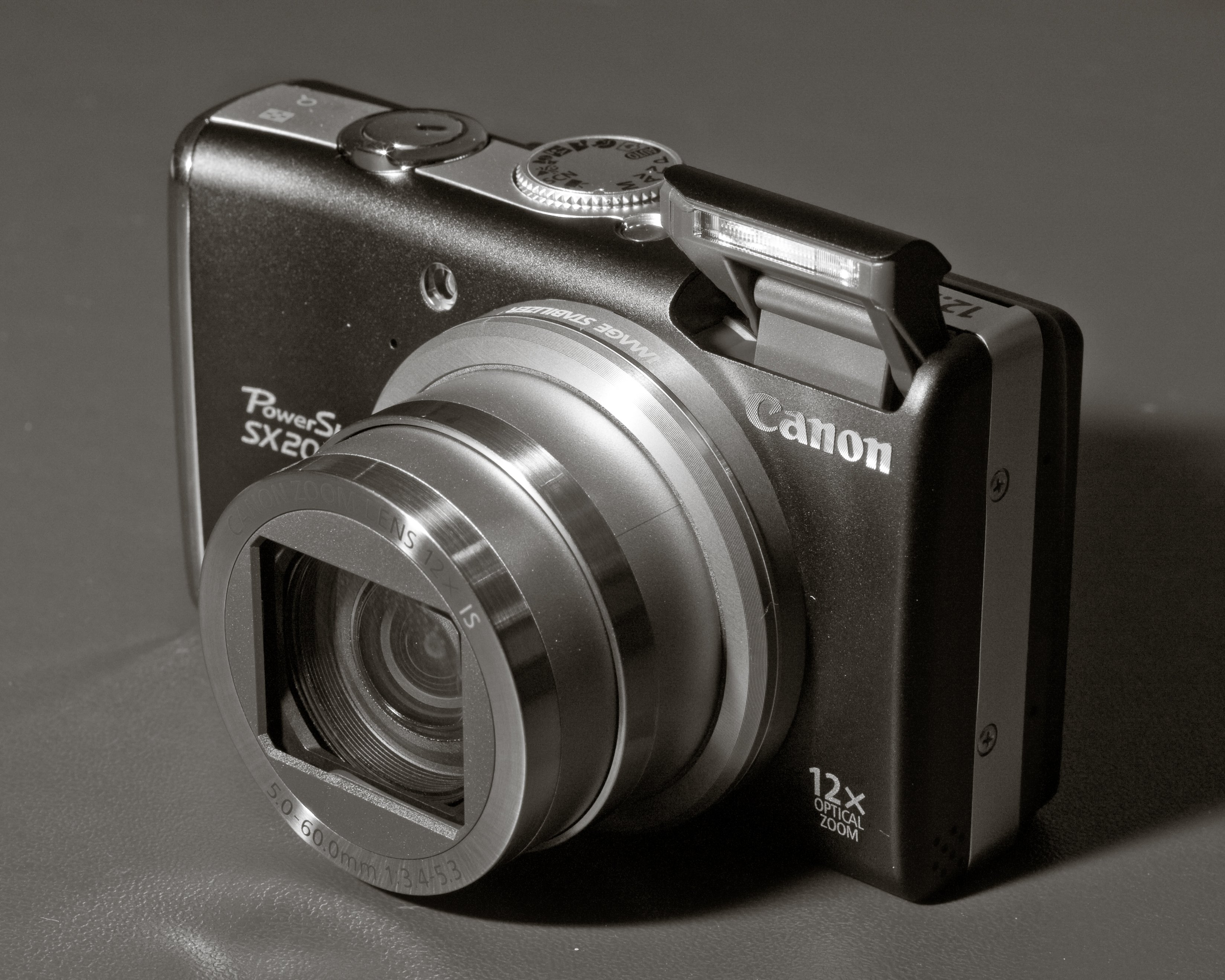 Canon PowerShot SX200 IS digital camera